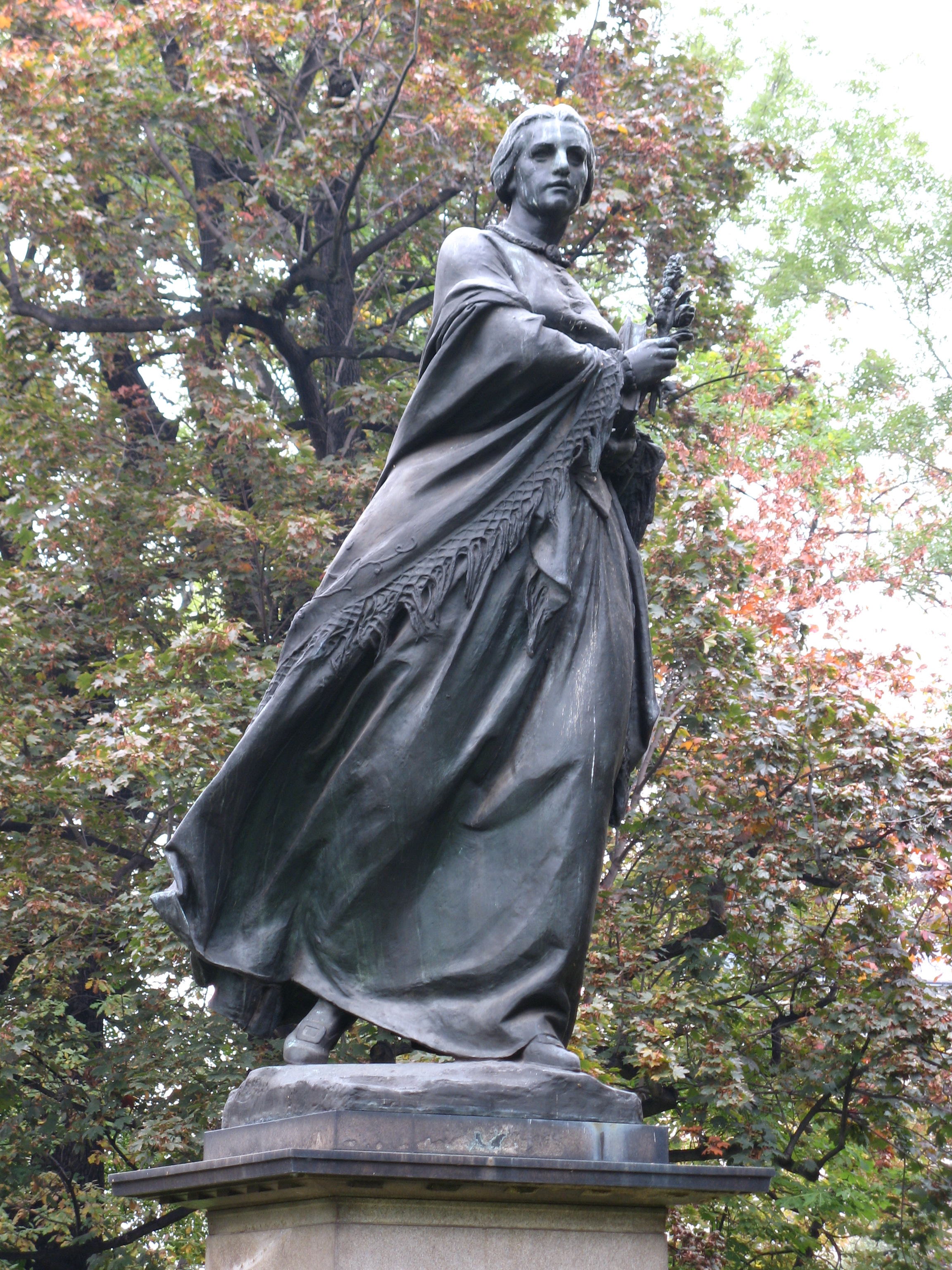 Statue of Božena Němcová at Slavic Island (Žofín) in Prague, a work by Karel Pokorný from 1955.